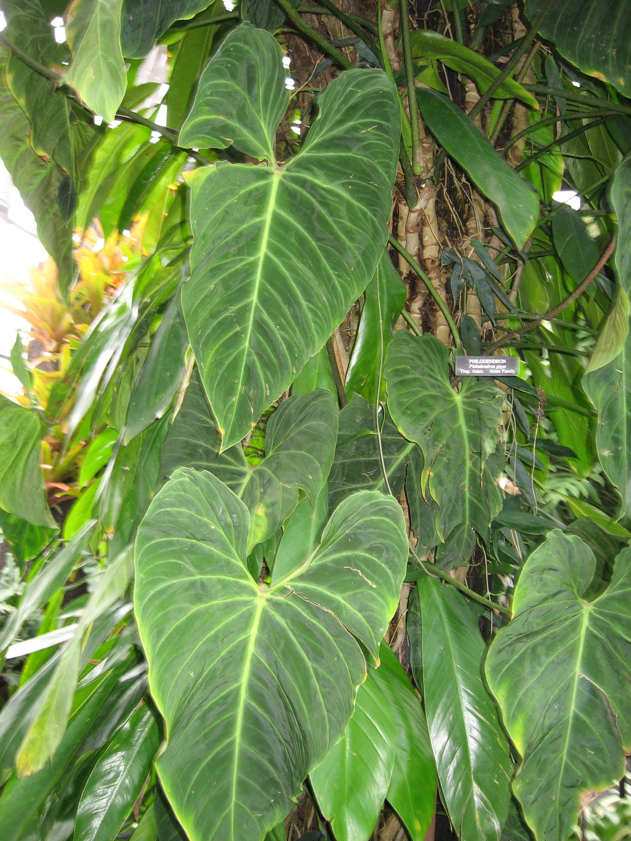 A picture of Philodendron gigas.